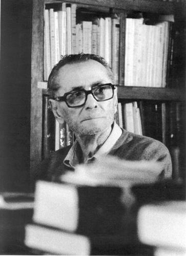 Parviz Natel-Khanlari (1914-1991), Iranian scholar (Iranologist, linguist and author).